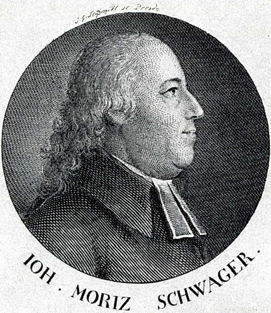 Johann Moritz Schwager (1738-1804) german protestant Theologian